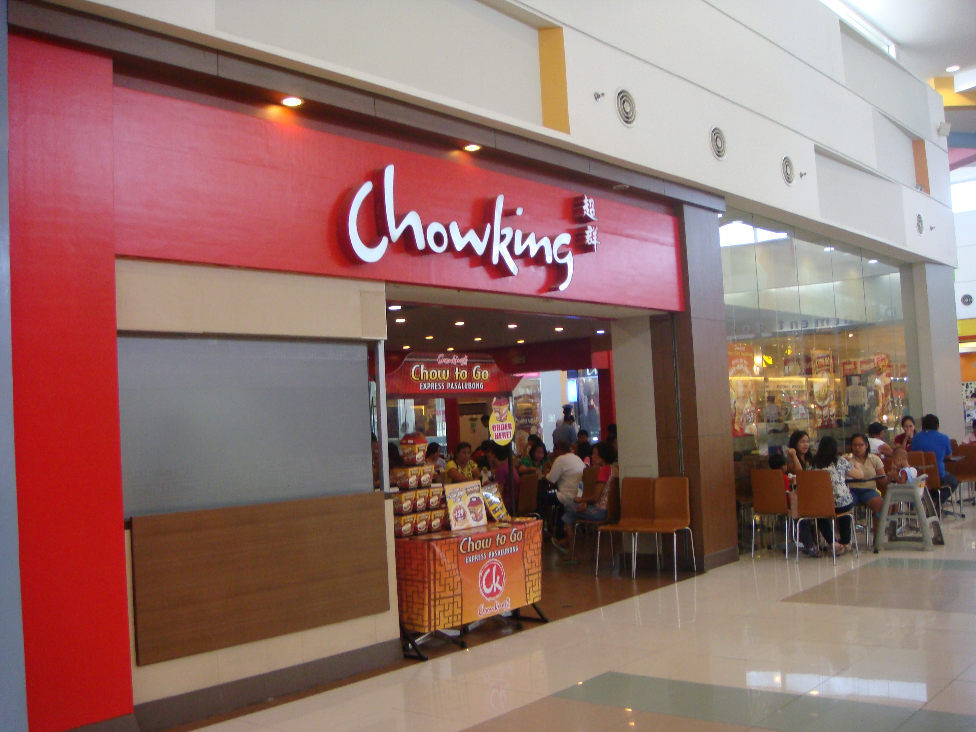 Chowking at SM City Baliuag